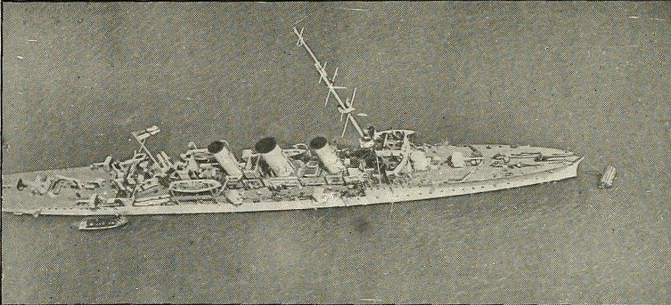 Aerial photograph of British light cruiser HMS Undaunted (1914).